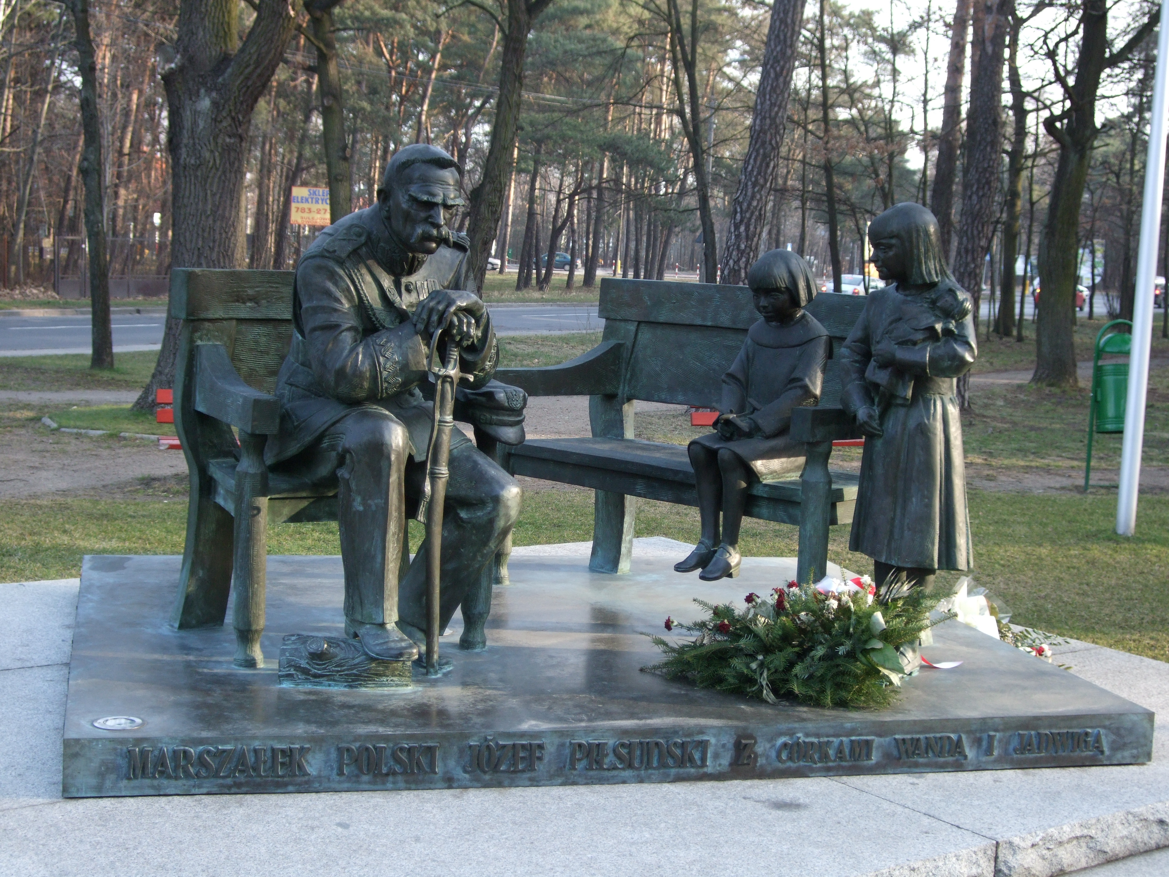 Marshall Piłsudski with daughters monument in Sulejówek